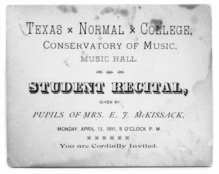 Texas Normal College, Conservatory of Music. [Texas Normal College, Student Recital], Text, ca. April 13, 1891